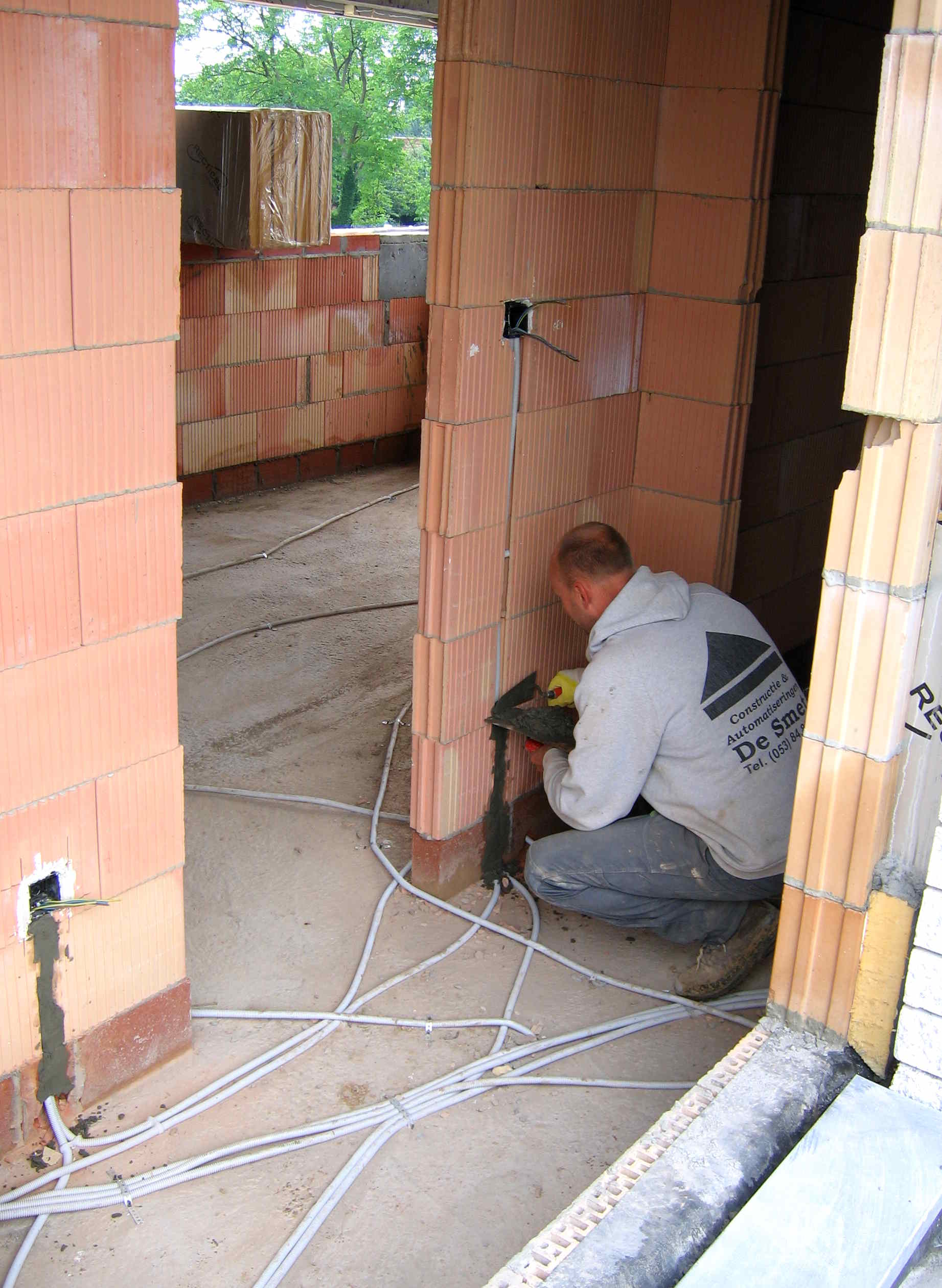 Installing electrical wiring "the old way". This kind of electrical wire installation is still commonly practice in Europe, yet is wasteful (allot of brick is lost due to the cutting), time-consuming, not very handy when there is a burned trough/damaged wire, ... A better alternative is the use of cable trays (aldough they are somewhat more expensive).